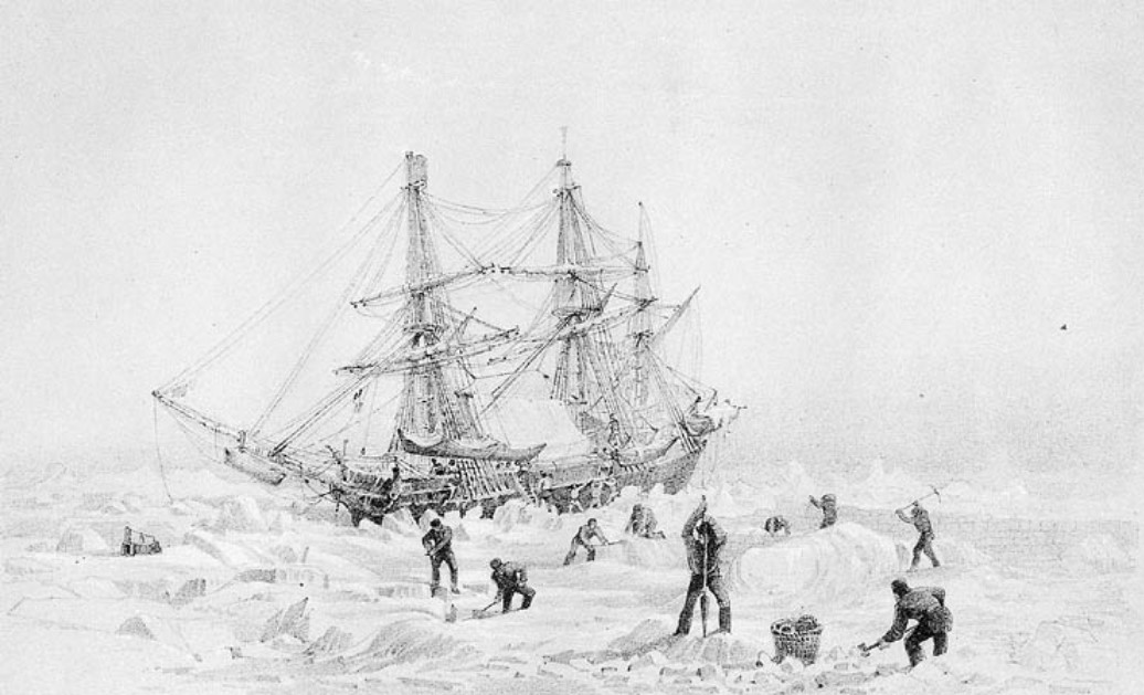 from Backs 1836-37 Arctic expedition.